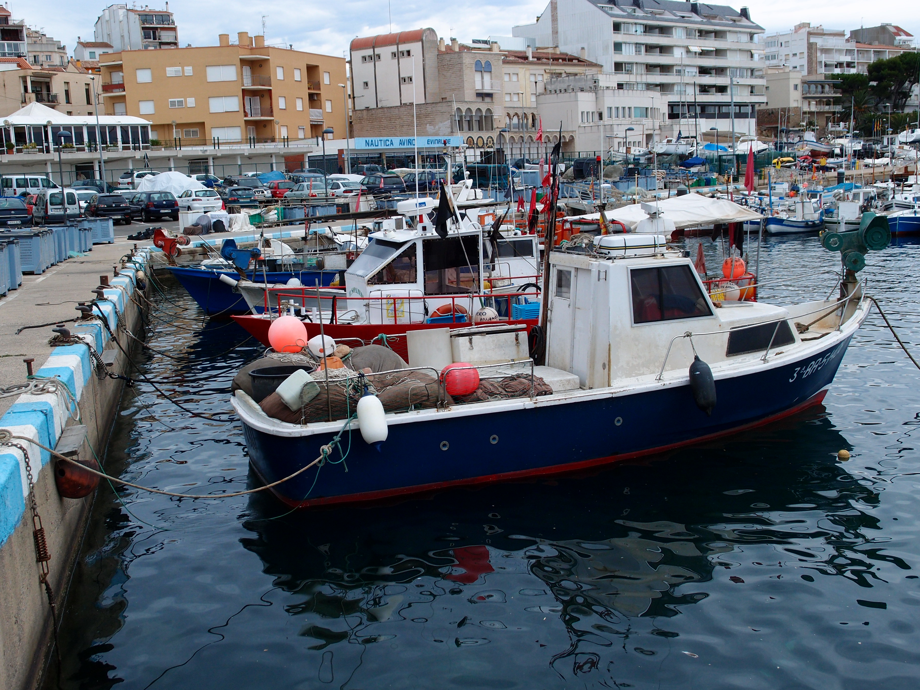 Fischerhafen in Palamós - Katalonien/Spanien Datum: 24.09.2011 Urheber: M. Pfeiffer alias Gordito1869 Quelle: Privates Fotoarchiv des Urhebers